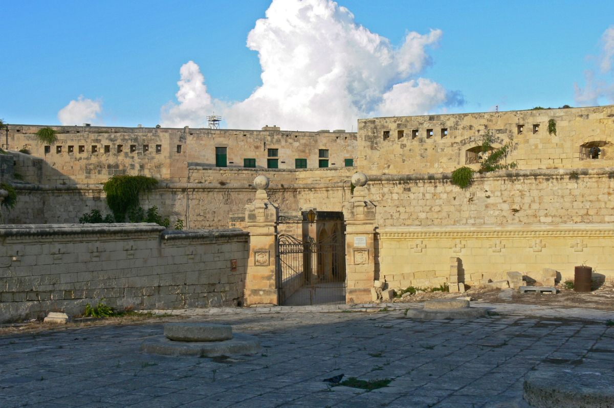 The entrance of Fort St. Elmo, Valletta, Malta, now housing the Police Academy